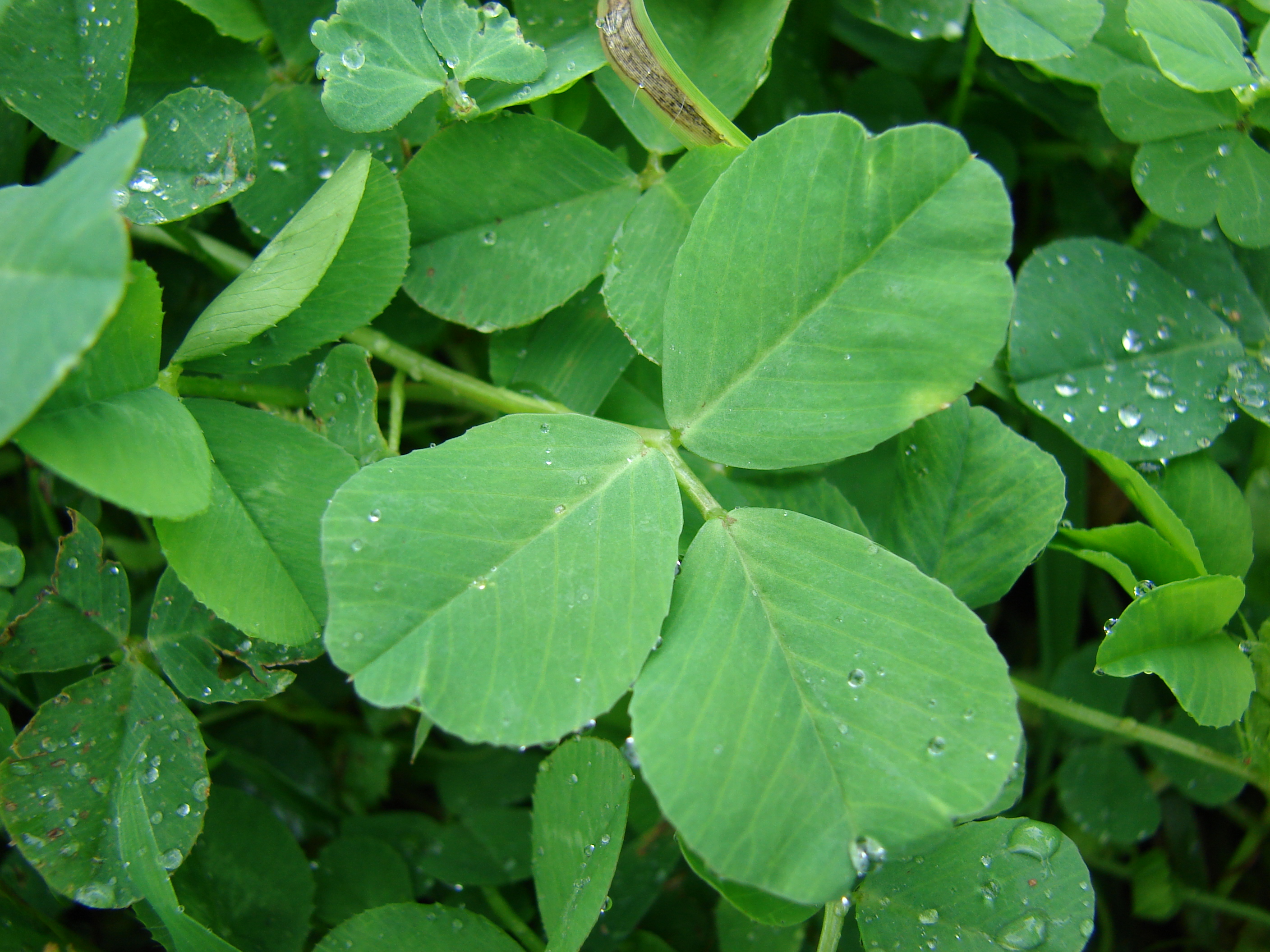 Trifolium repens (leaves). Location: Maui, Pulehu